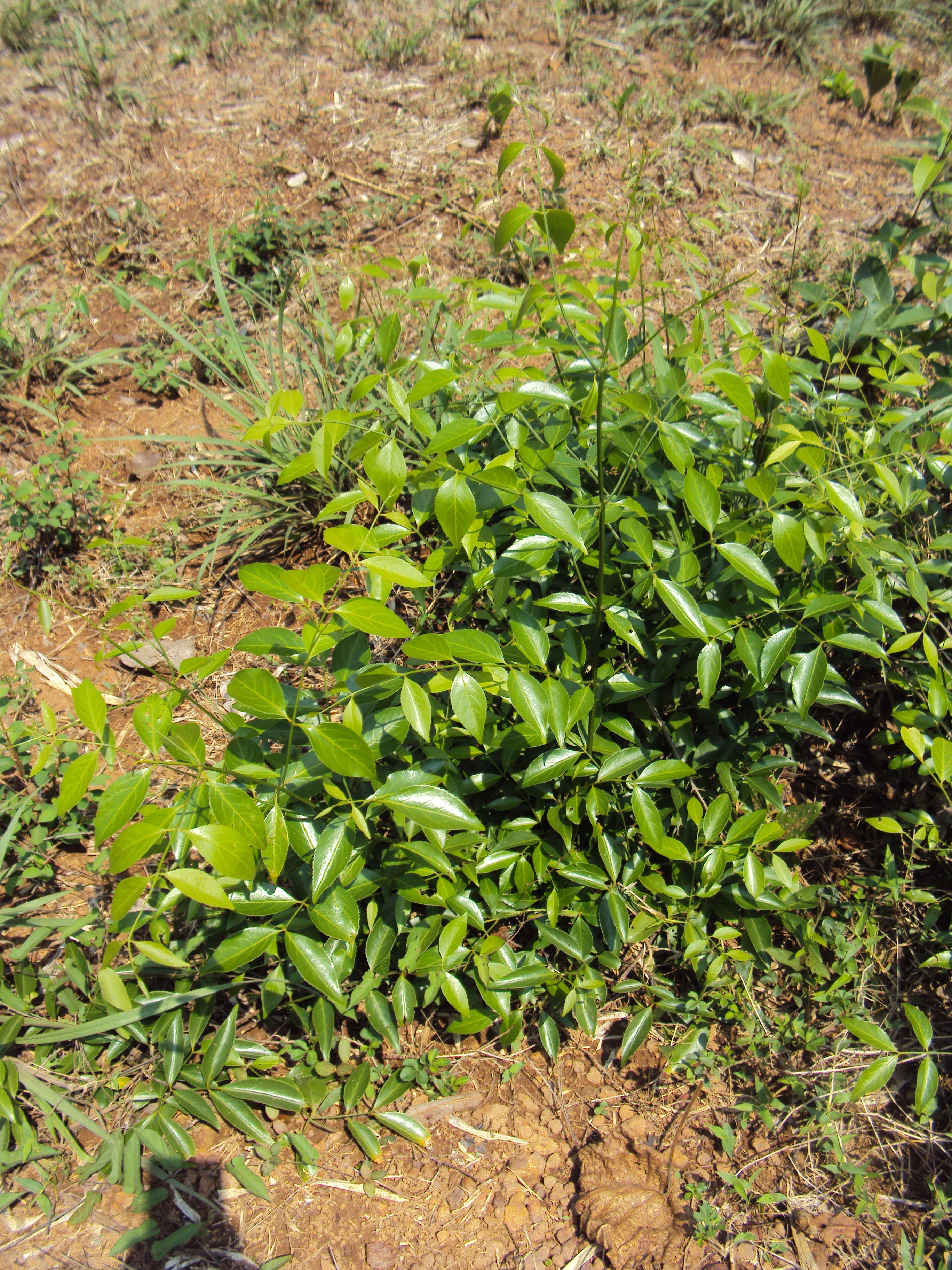 Reissantia indica